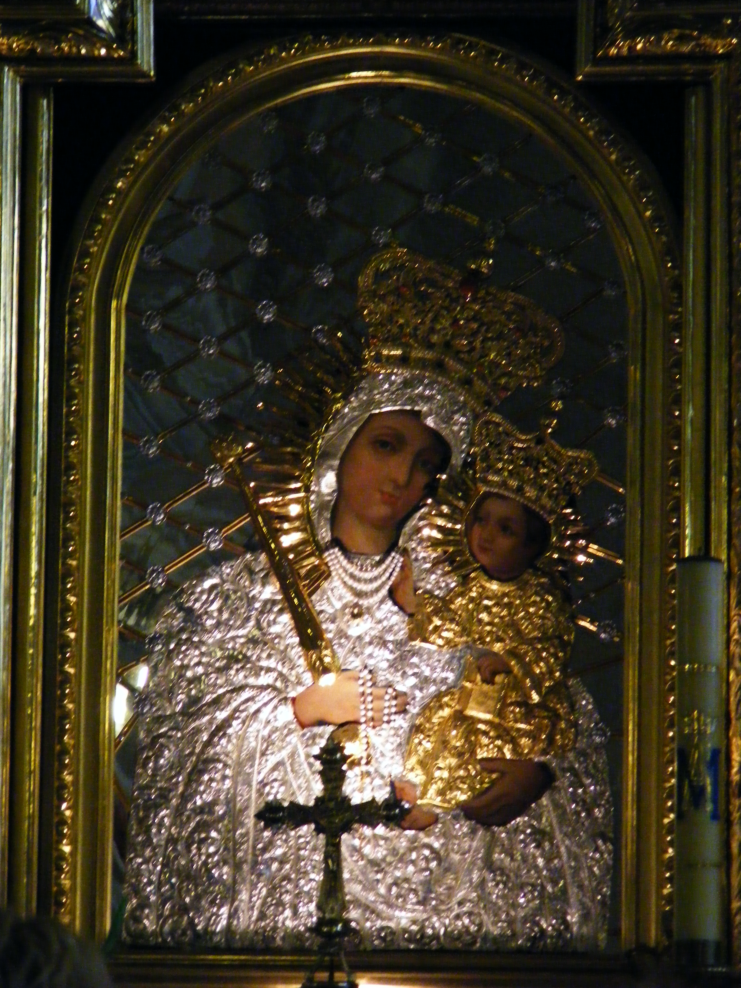 Icon in church of San Gregorio Magno in Kraków (Ruszcza)